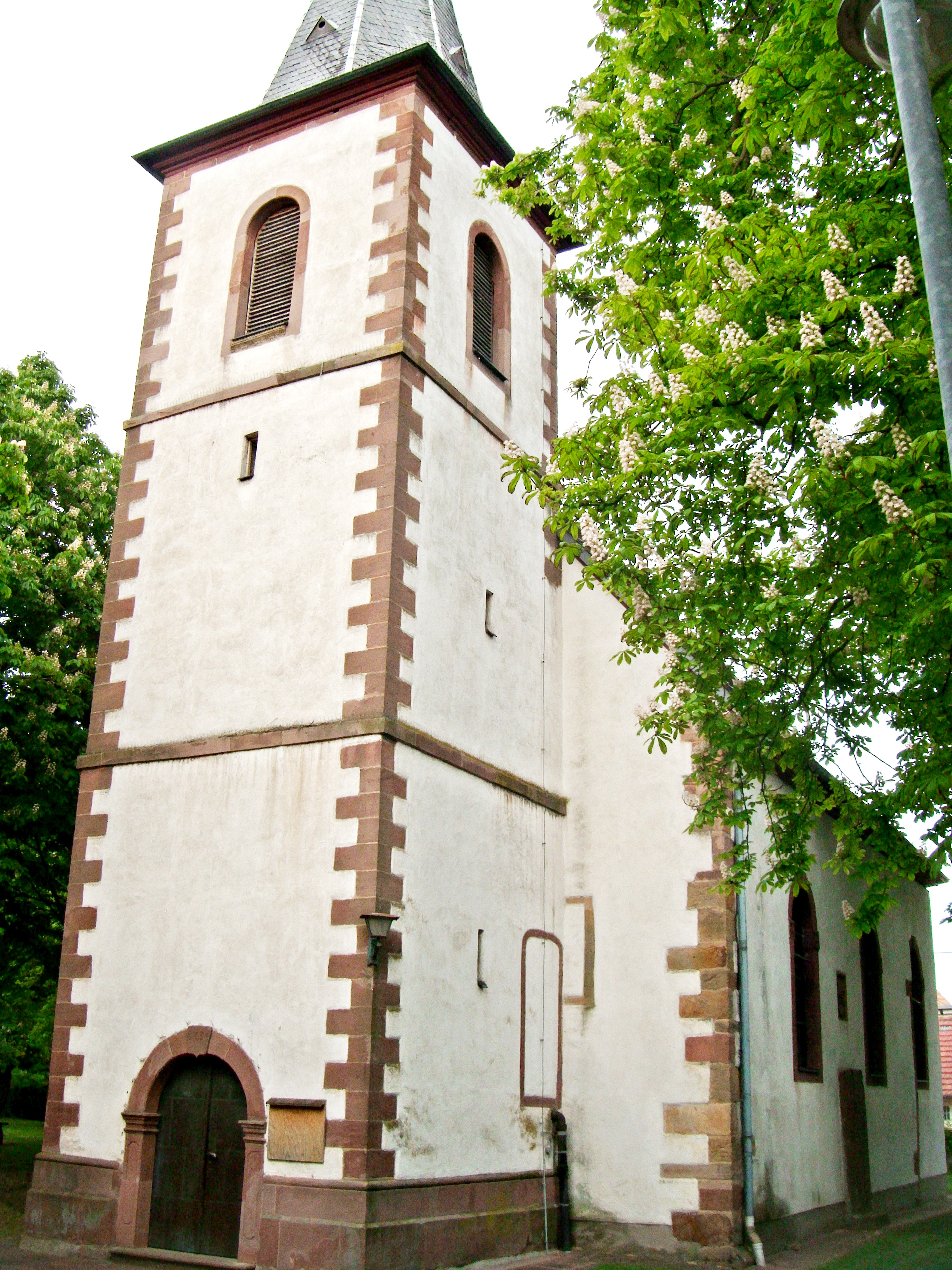 Heuchelheim bei Frankenthal, Prot. Kirche